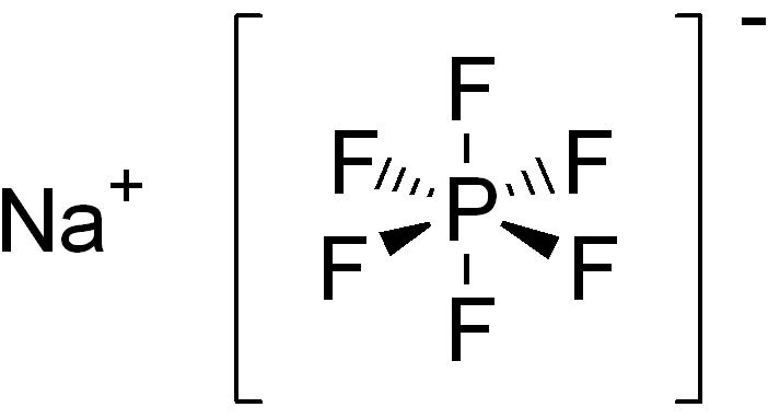 chemical structure of sodium hexafluorophosphate